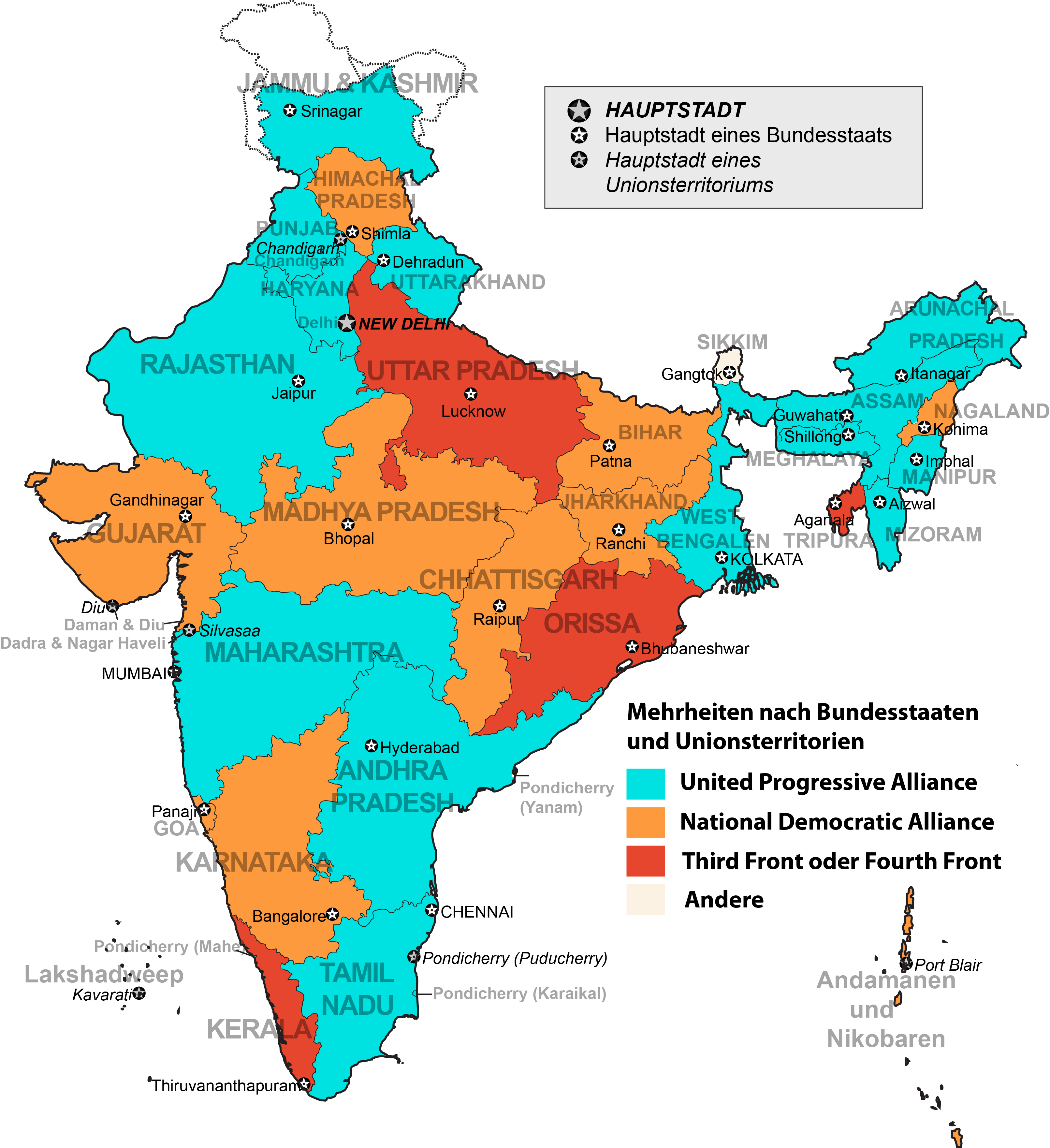 Results of the Indian general election, 2009 according to federal states and union territories and party coalitions.